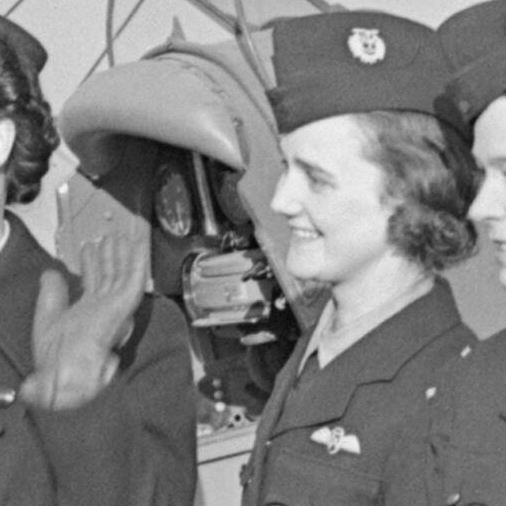 The Air Transport Auxiliary, 1939-1945. Pauline Gower (far left), Commandant of the Women's Section of the ATA, stands with eight other founding female ATA pilots at Hatfield, Hertfordshire, by newly-completed De Havilland Tiger Moths awaiting delivery to their units. The other pilots are; (left to right), Mrs Winifred Crossley, Miss Margaret Cunnison, The Hon. Mrs Margaret Fairweather, Mona Friedlander, Miss Joan Hughes, Mrs G Paterson, Miss Rosemary Rees and Mrs Marion Wilberforce.